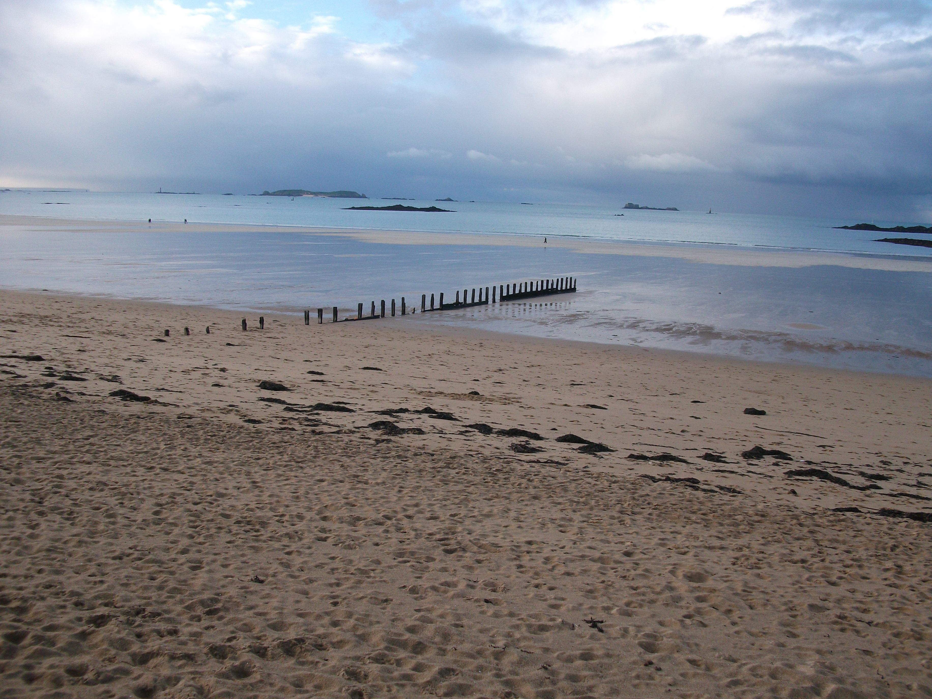 Image of beach at low tide, Saint-Malo, France.